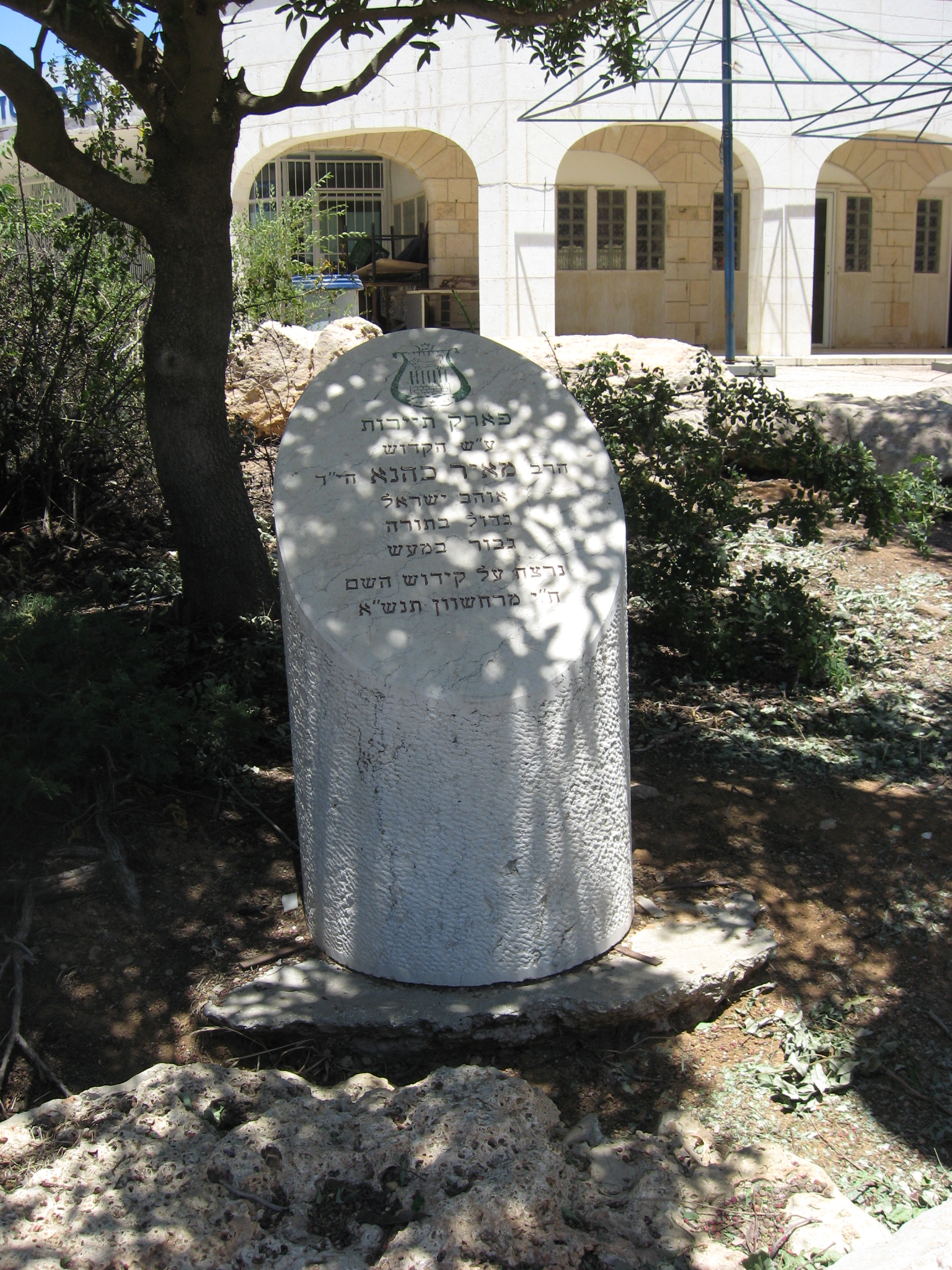 Entrance sign at Meir Kahane Tourist Park, Kiryat Arba, Palestinian Occupied Territories. Text (rough translation; some of this is Jewish terminology): Tourist park Named after the saint Rabbi Meir Kahane The-Lord-Will-Avenge-His-Blood Lover of Israel Great in the Torah Hero of action Murdered over making the Lord holy 18th of Cheshvan 5751